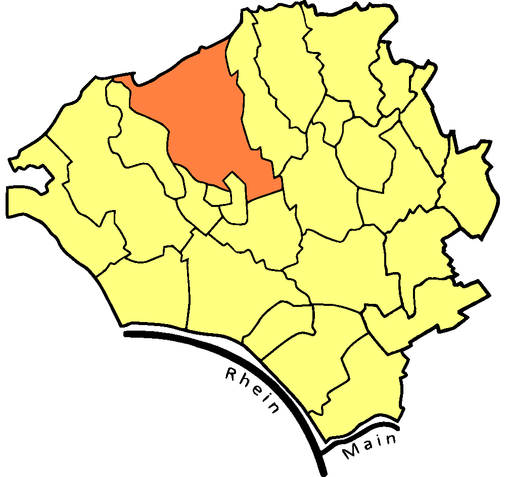 Map of Wiesbaden showing the location of Nordost